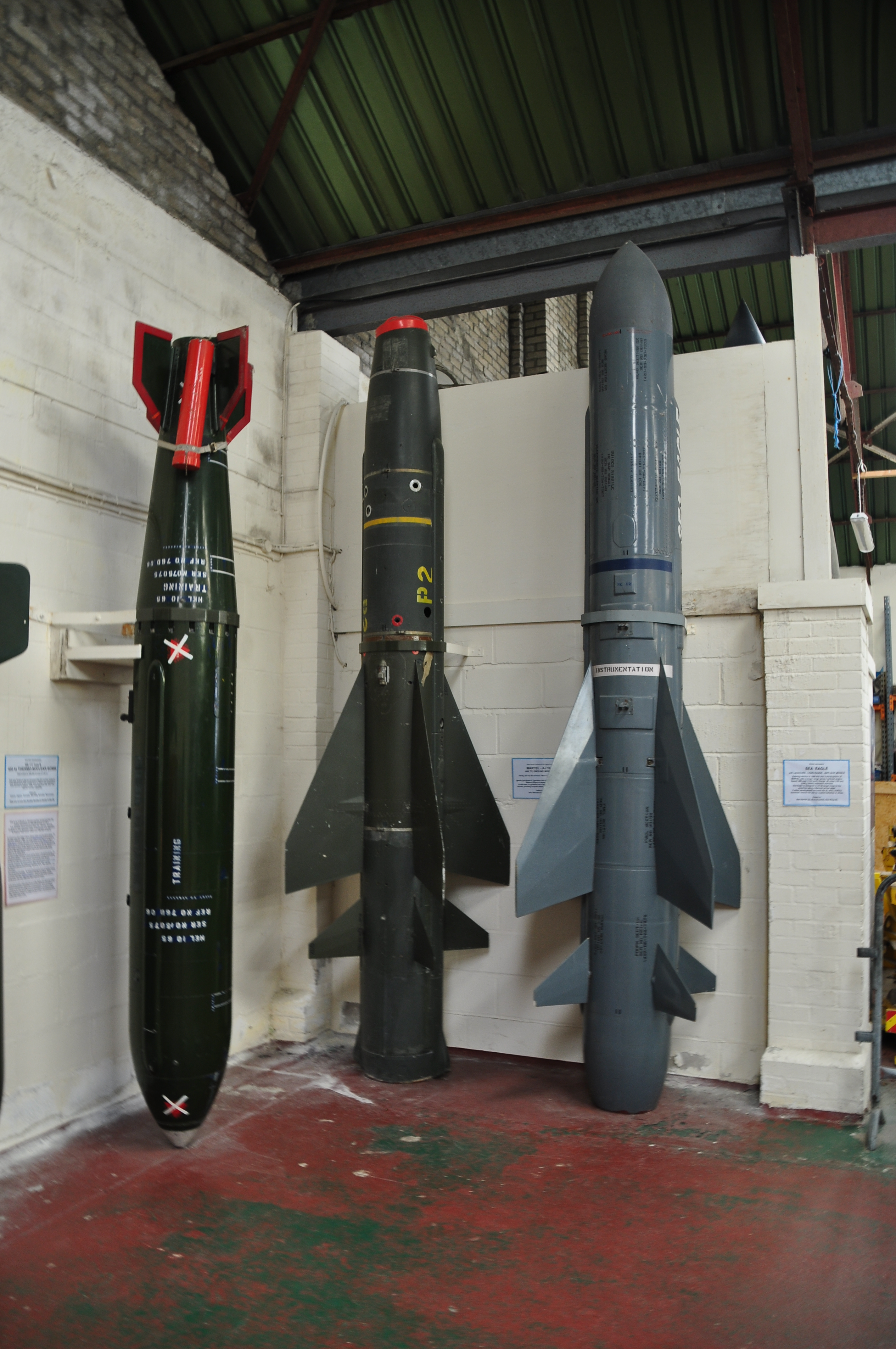 Yorkshire Air Museum